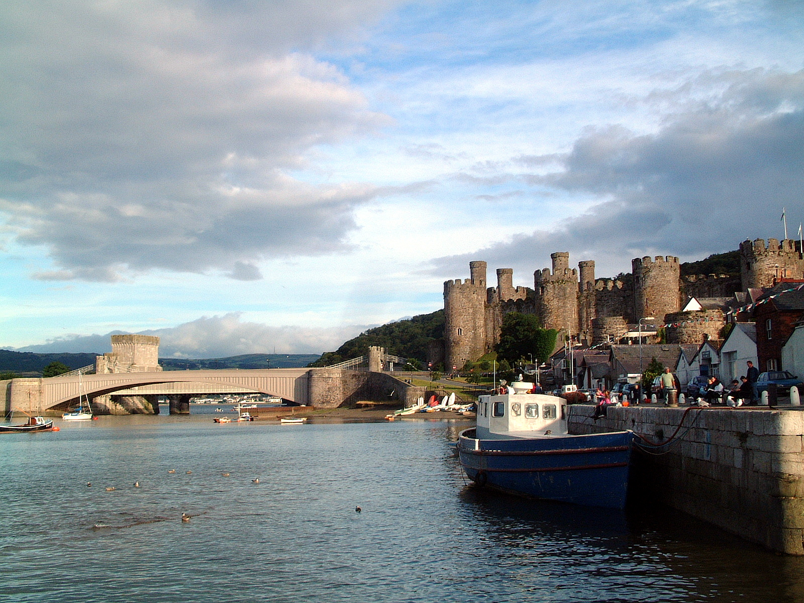 Conwy Castle and Bridges